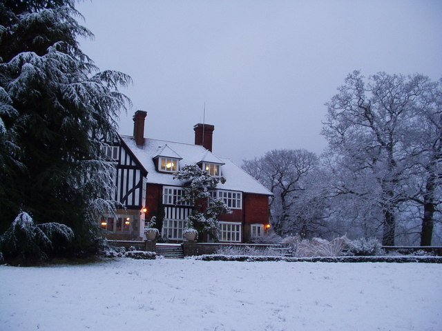 Merrist Wood College Winter Scene Centre for Arboriculture training, animal welfare and Equestrian Horsey stuff.